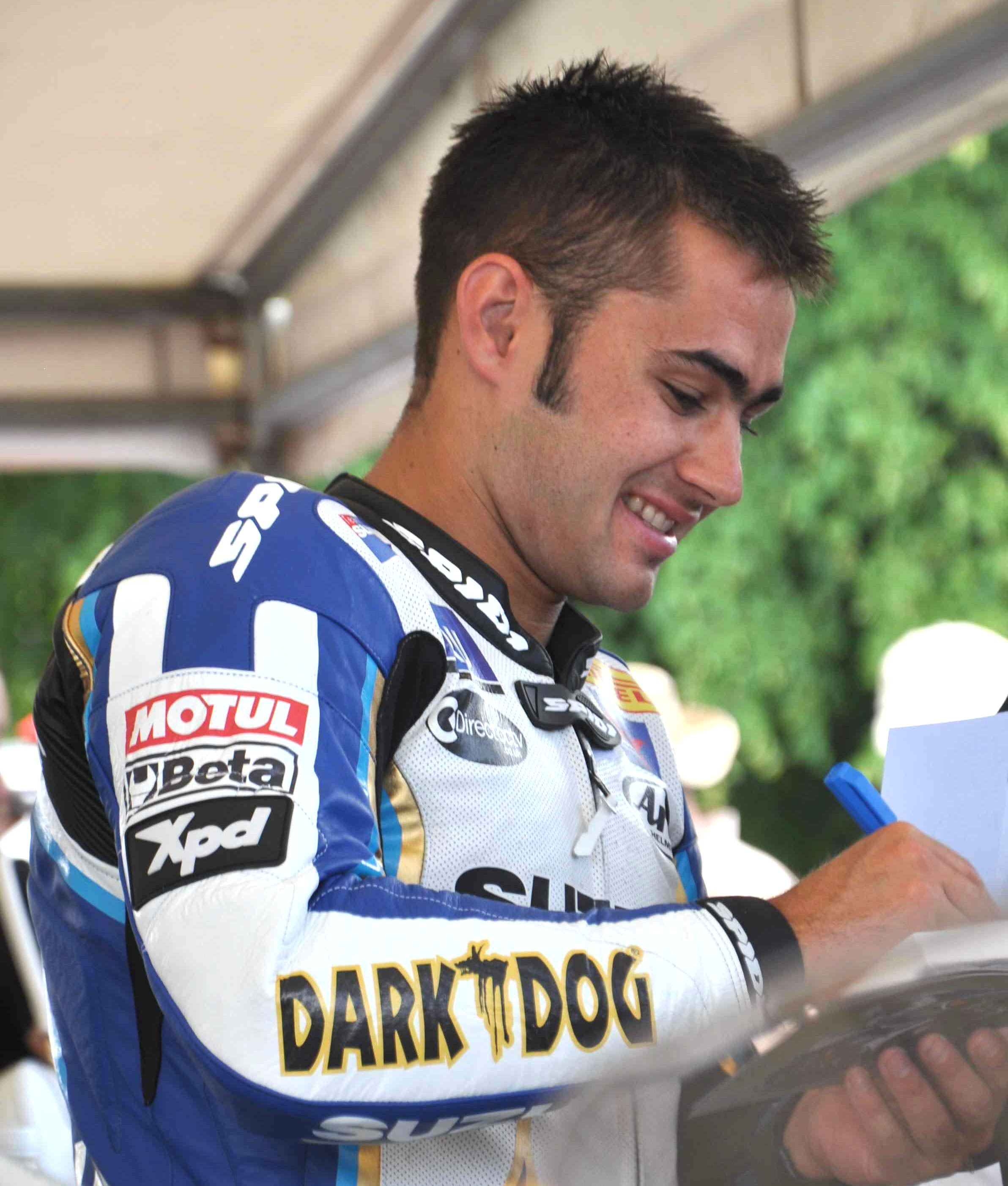 Leon Haslam signing an autograph at Goodwood Festival of Speed in 2010 wearing Alstare Suzuki World Superbike team colours